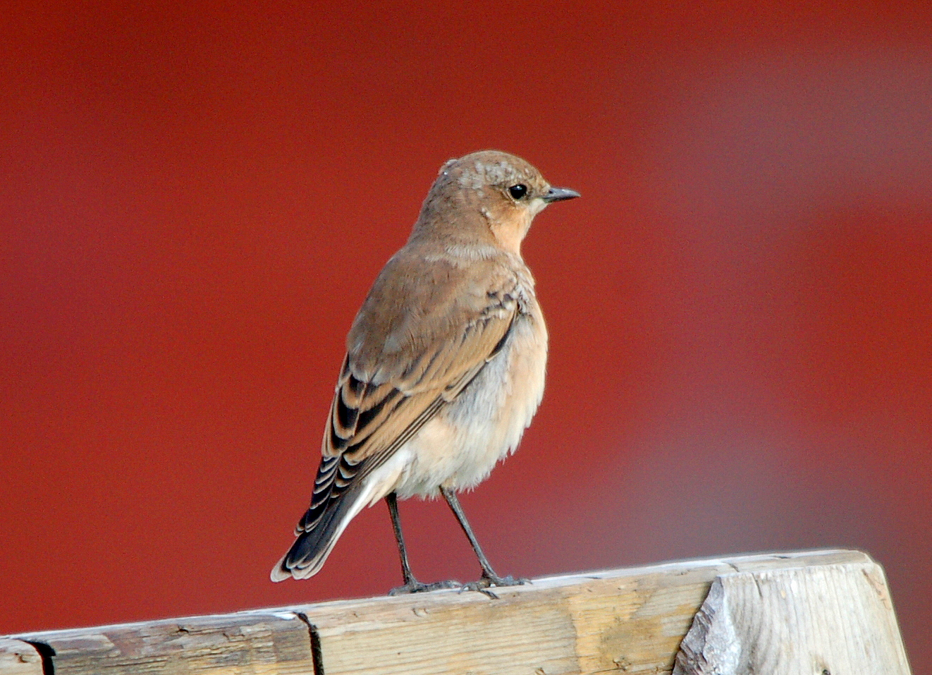 The Northern Wheatear or Wheatear (Oenanthe oenanthe)